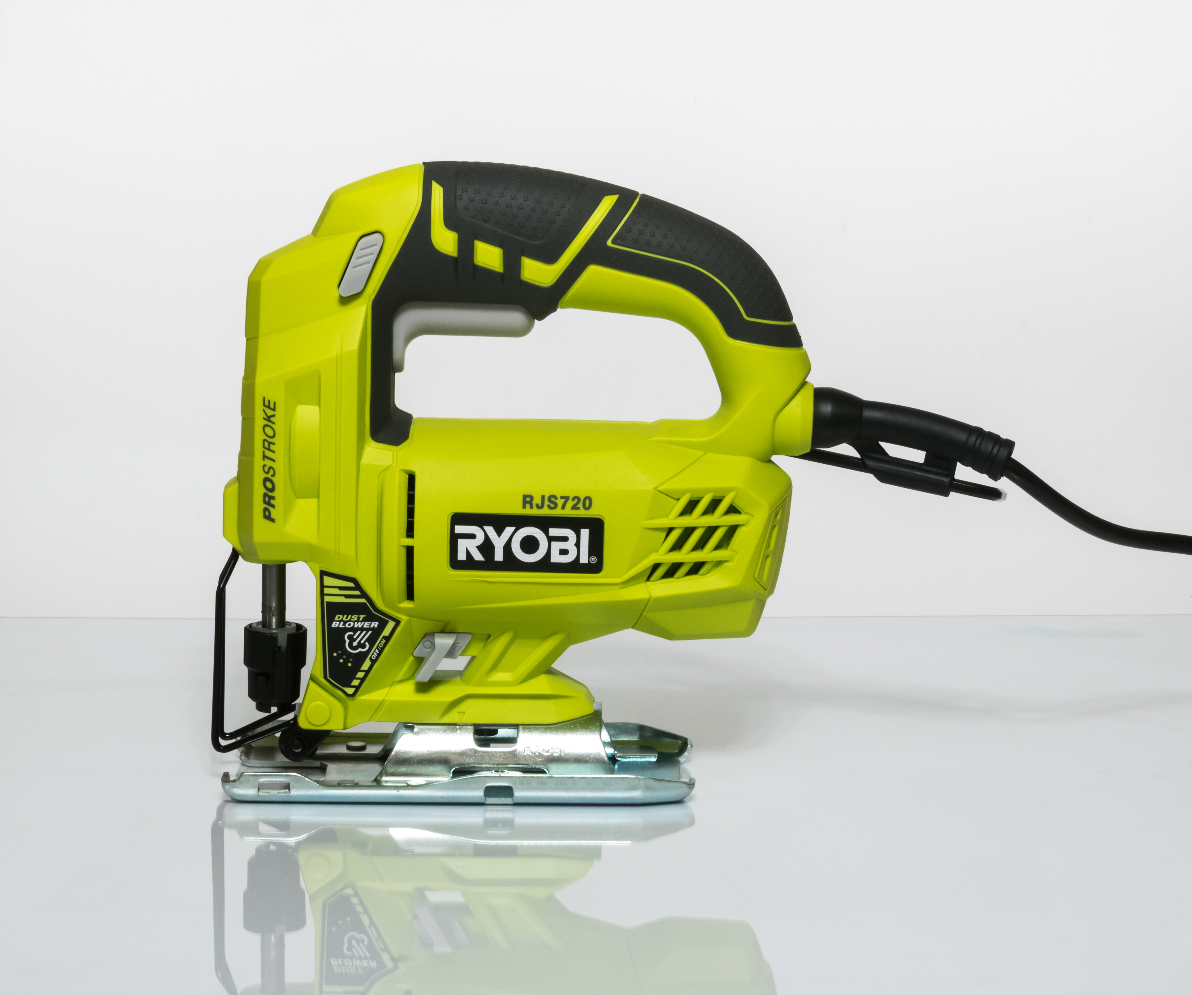 Ryobi jigsaw RJS 720